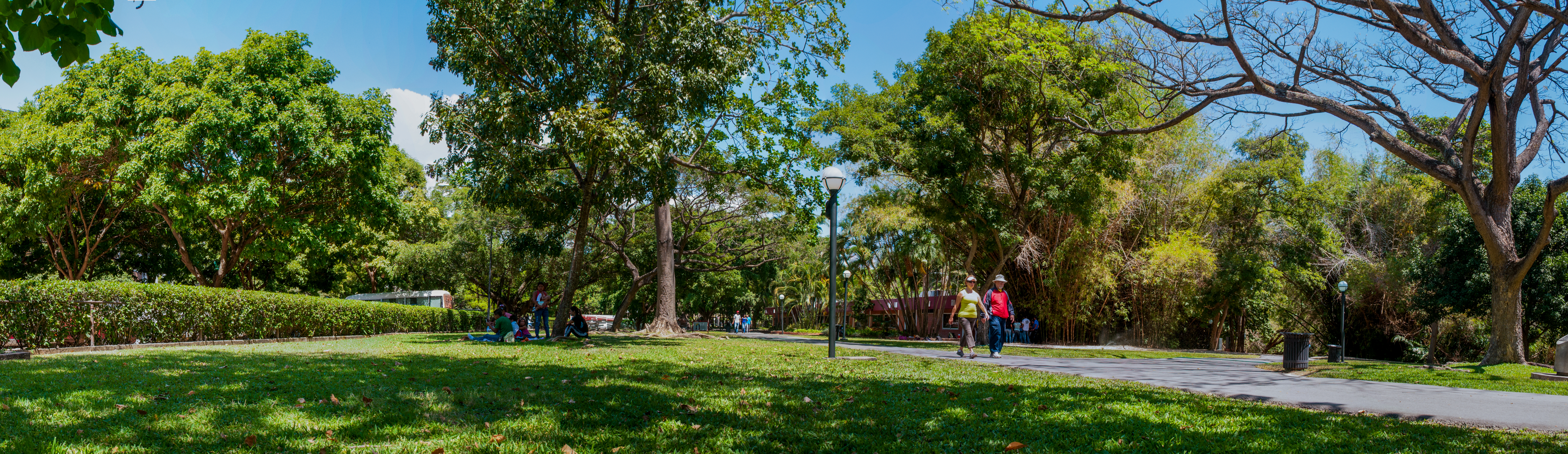 Negra Hipolita Park in Valencia City